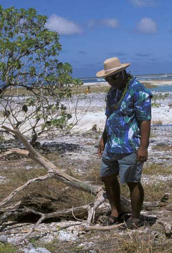 The former President of Kiribati, Teburoro Tito, looks at a Christmas Shearwater (Puffinus nativitatis) burrow on Cook Islet, Kiritimati, Line Islands, Kiribati. Original field notes: President Tito, who is no longer President (he already served the allowable two terms), is very interested in wildlife. He was the President who worked with UNESCO to allow several Kiribati islands (Millennium/Caroline, Malden, Flint, parts of Kiritimati) to be included in an upcoming Central Pacific Islands World Heritage Site.